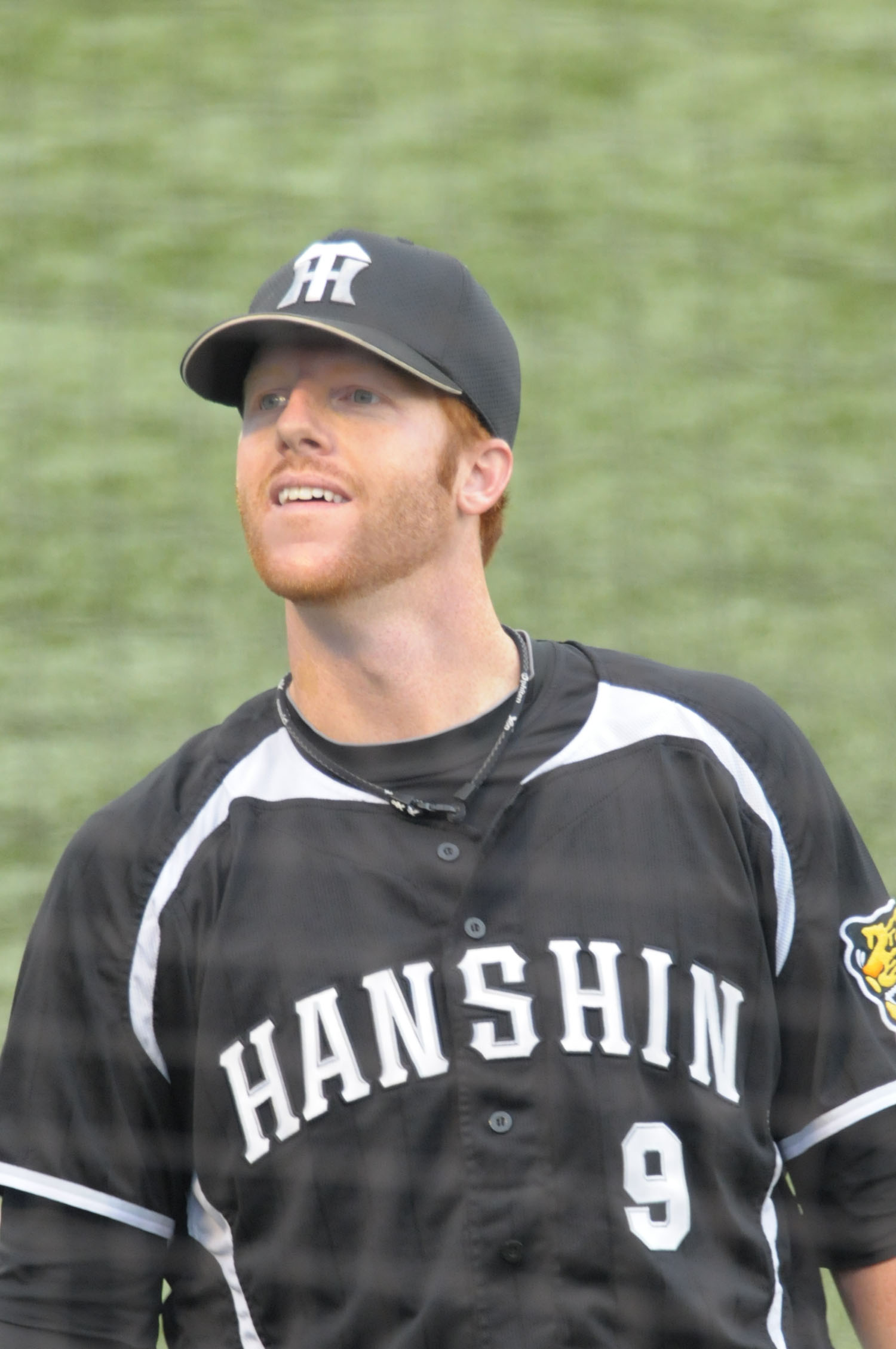 Matt Murton, outfielder of the Hanshin Tigers, at Meiji Jingu Stadium.